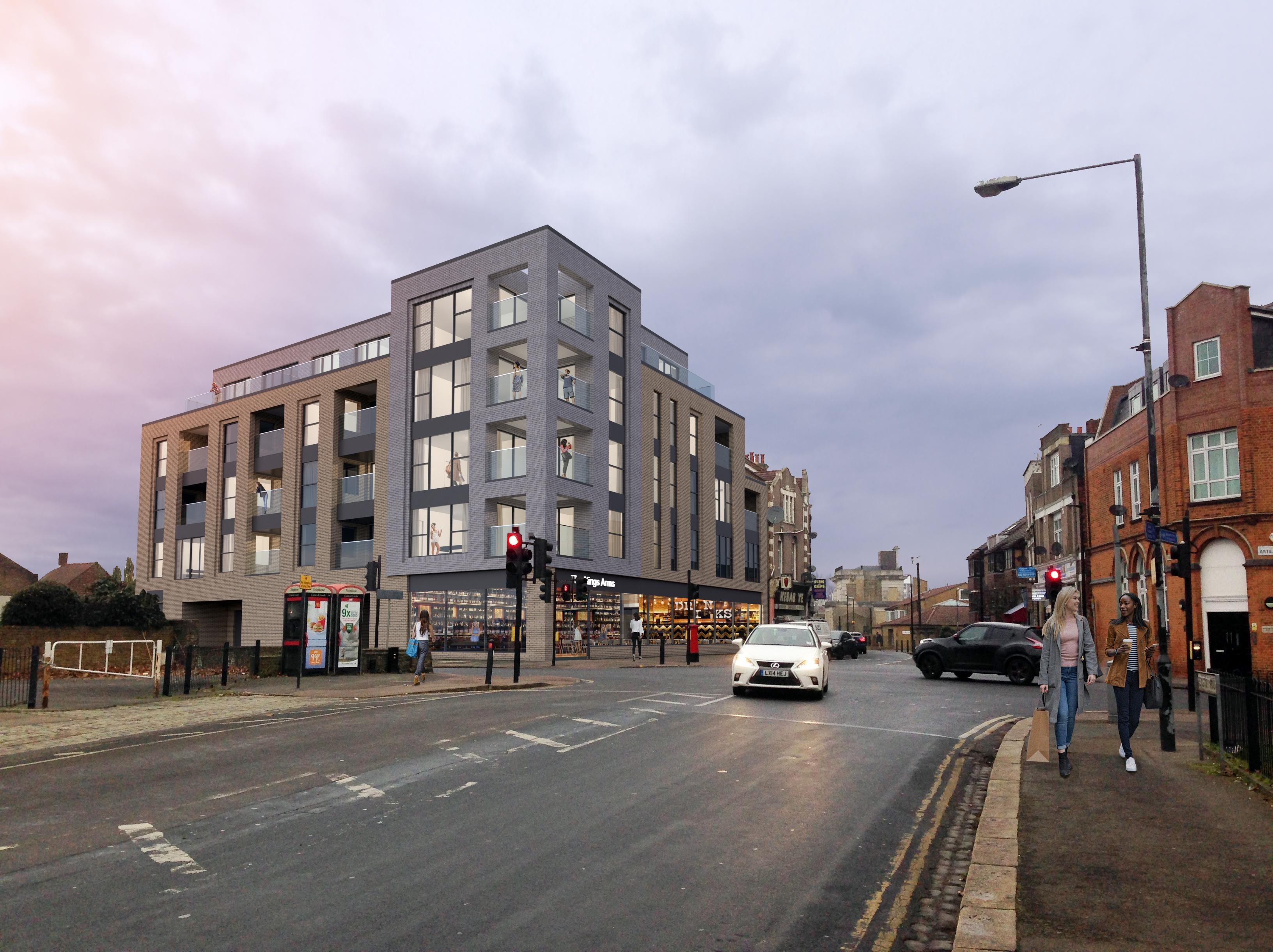 Computer generated image of the approved building to be built on the Kings Arms site